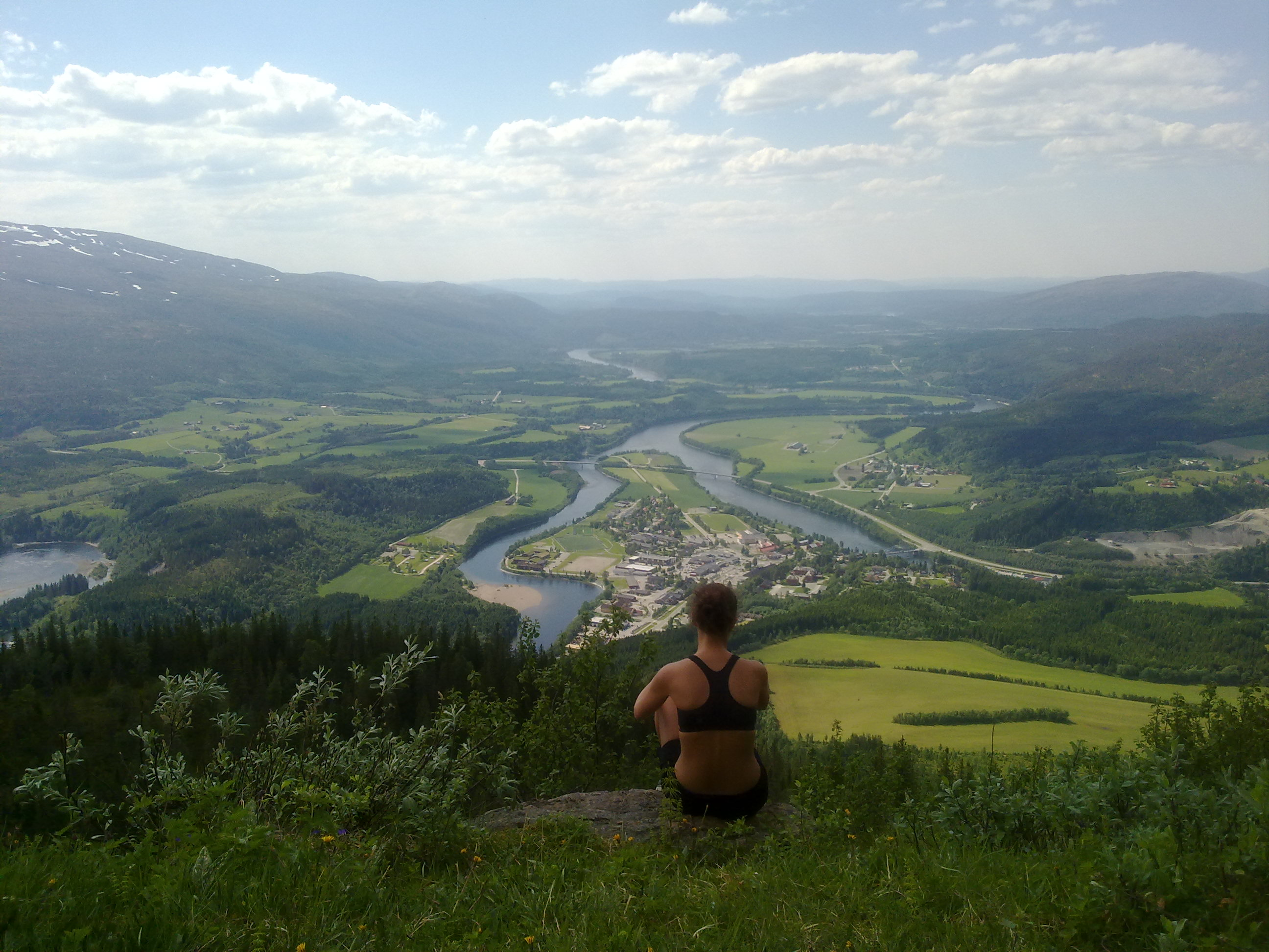 View from Storhusfjellet towards Grong. The rivers are Namsen (right) and Sanddøla (left). Photo: Kurt Melhus